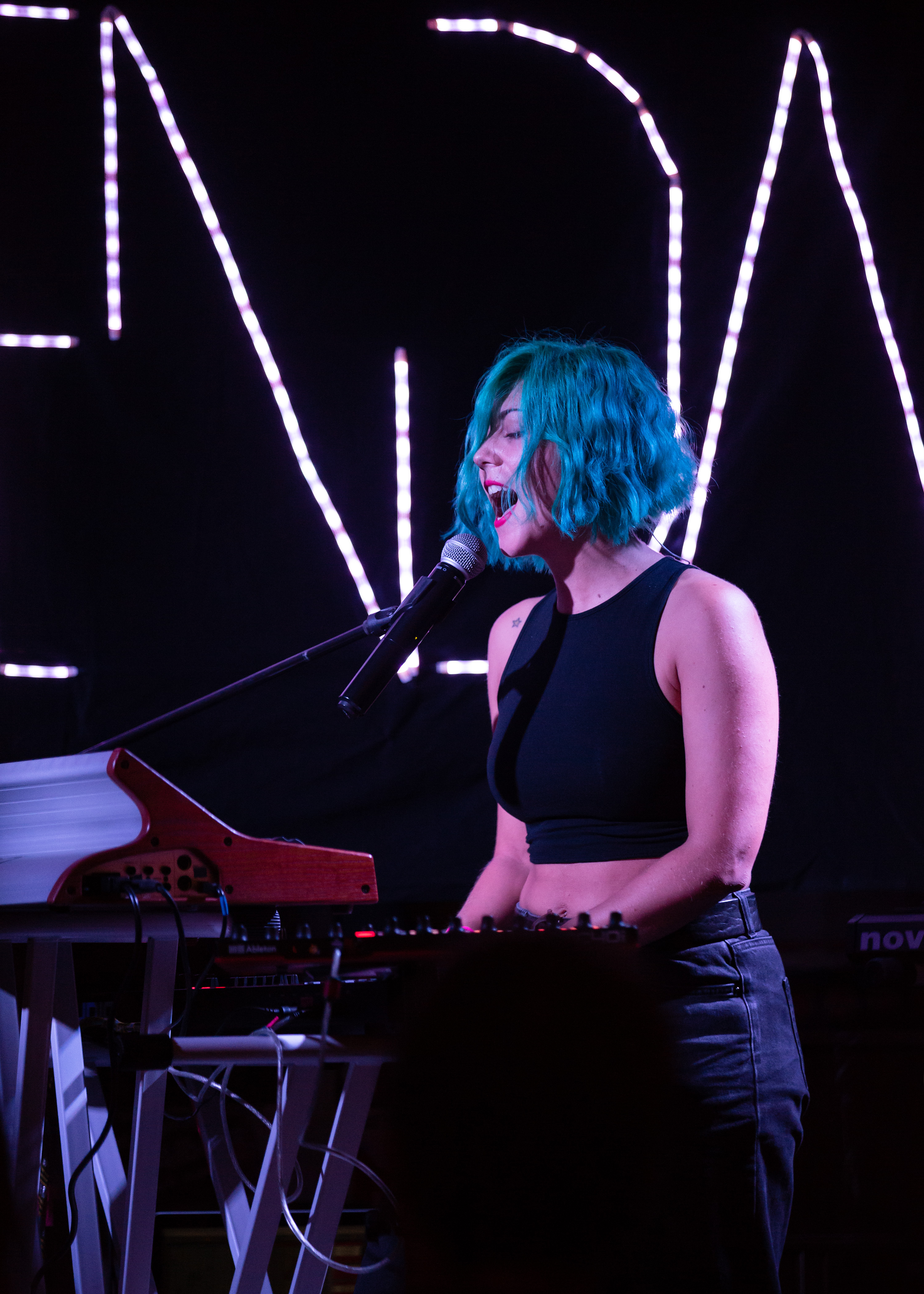 PÆNDA at Waves Vienna 2017 at Café Clash (Vienna, Austria).